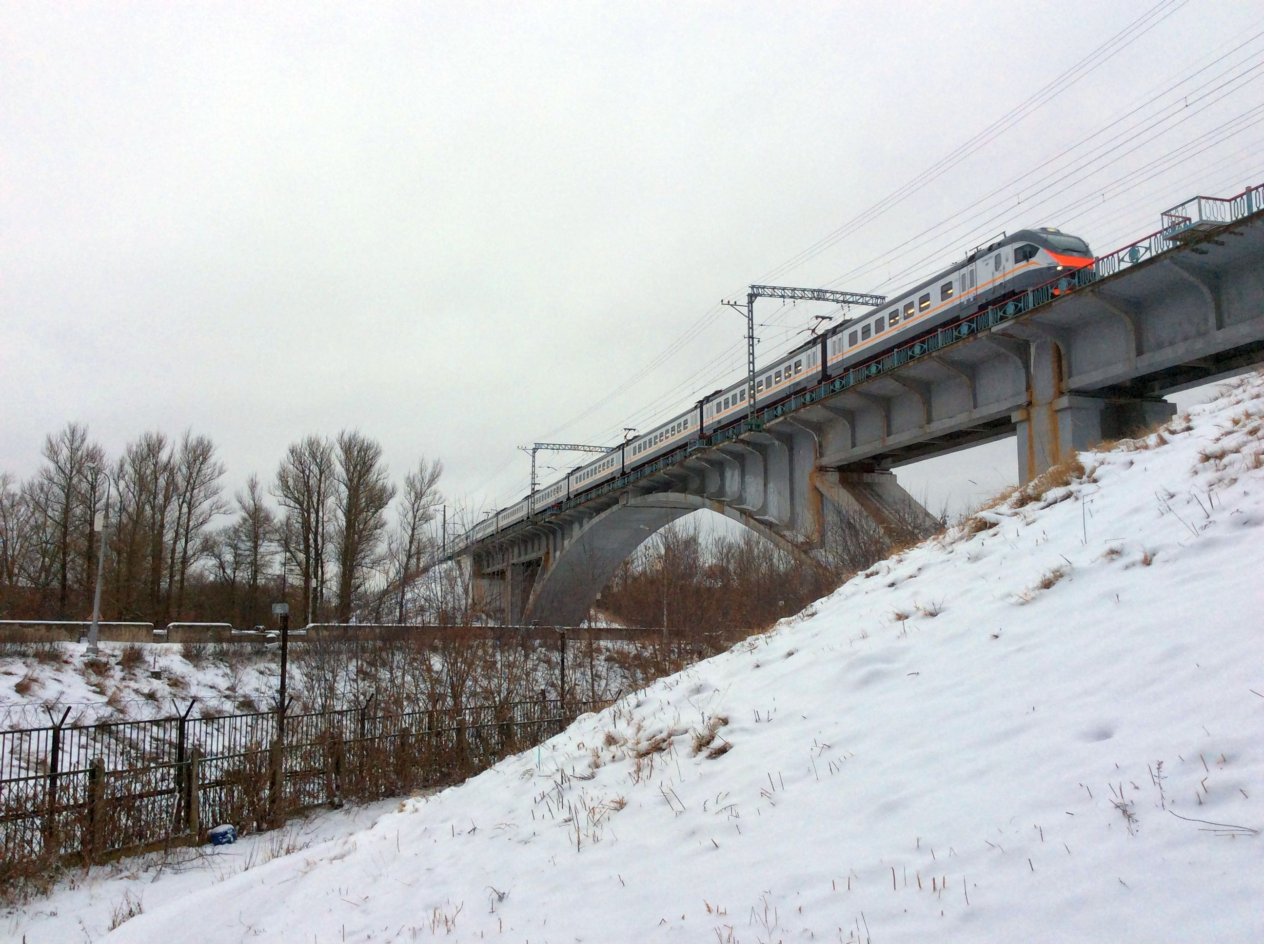 Bachelis Bridge over the Moscow Canal, Russia